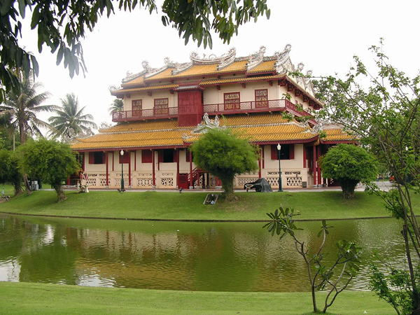 Wehart chamrun residentail hall, and gardens, at Bang Pa In Royal Palace, Thailand